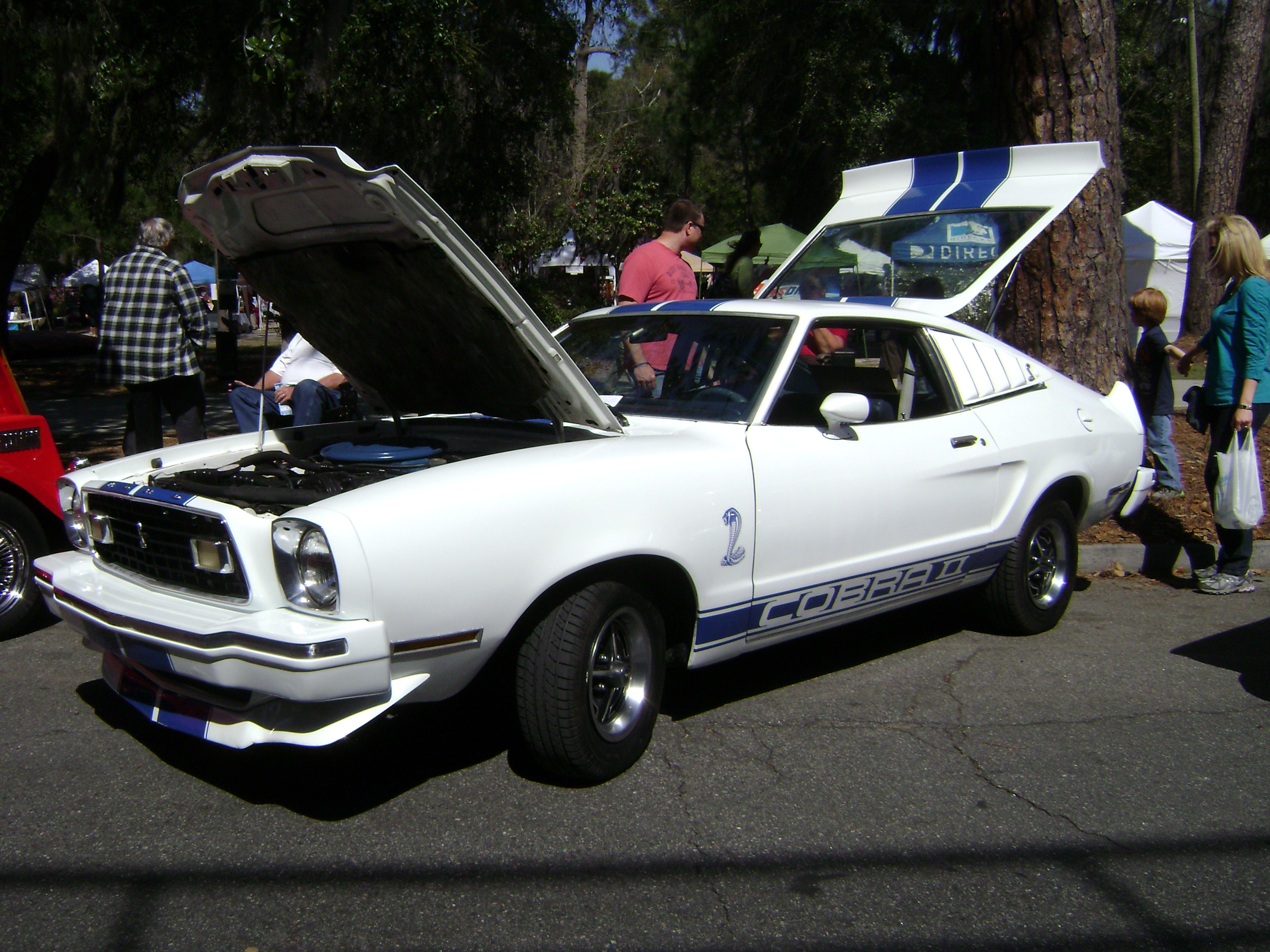 Azalea Festival 2013